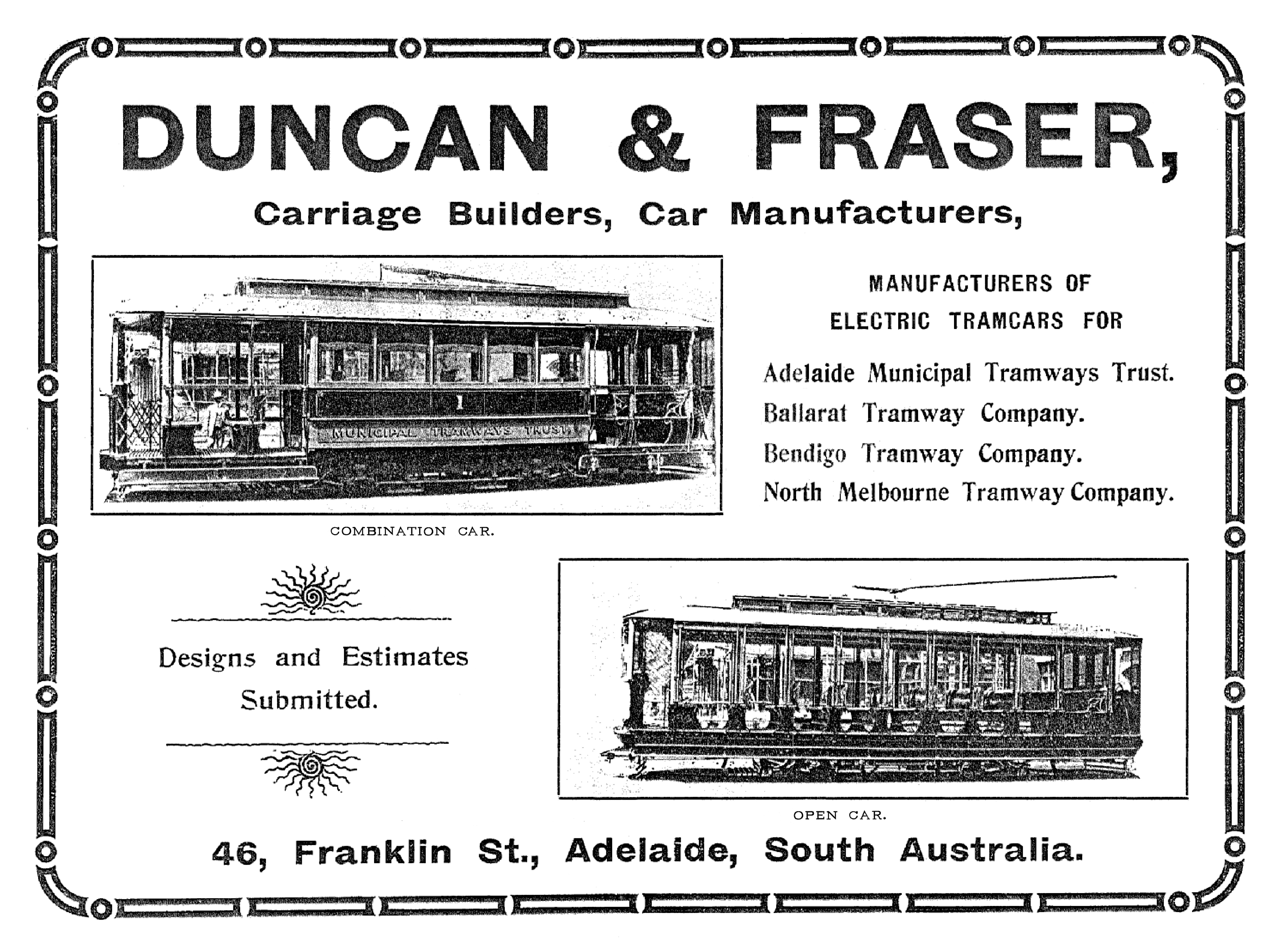 A newspaper advertisement for "Duncan & Fraser, Carriage Builders, Car Manufacturers". Includes two photos of what were later classified as Type A and Type B tram cars built by the company for Adelaide's Municipal Tramways Trust in 1908–09.